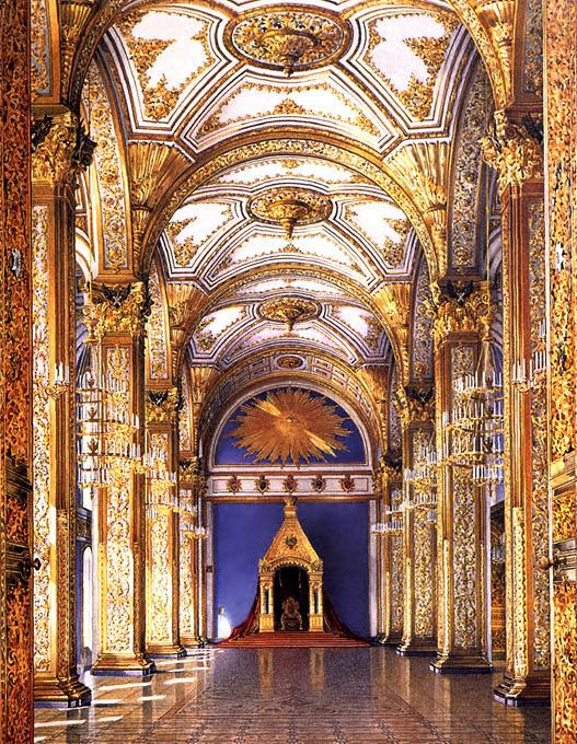 Then newly-decorated Hall of St Andrew in the Grand Kremlin Palace.